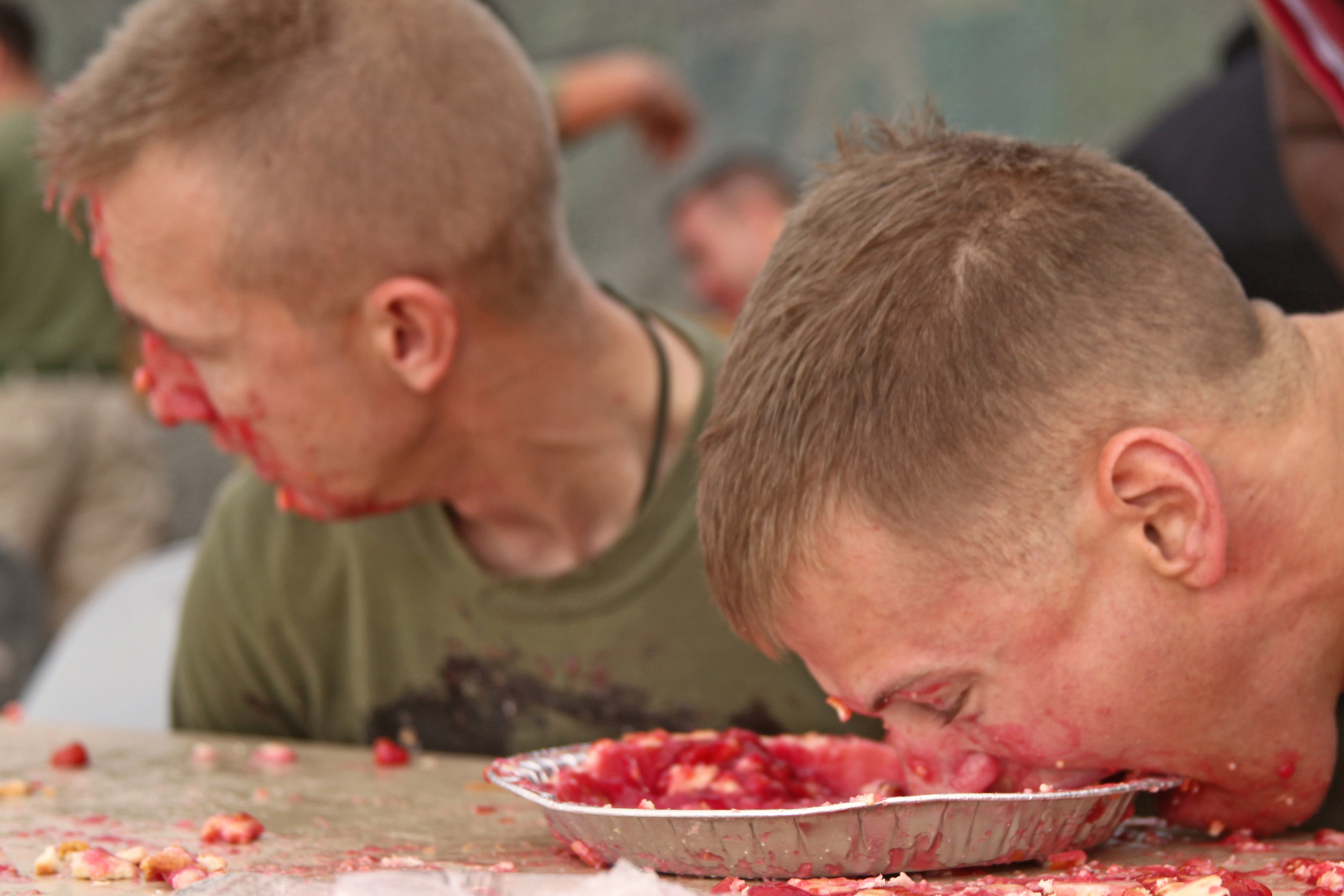 Pfc. Joshua Reed (right), a motor transportation operator with 2nd Radio Battalion, Task Force Belleau Wood, eats his cherry pie during the pie-eating competition at the TFBW Praetorian Challenge aboard Camp Leatherneck, Helmand province, Nov. 26. Over 50 coalition troops took part in the event, which consisted of teams from different units within TFBW competing in events such as tug-of-war and the pie-eating contest. Reed and his teammate, Sgt. Edward Butler, finished in third place. Regional Command Southwest Photo by Cpl. Katherine Keleher Date Taken:11.26.2011 Location:CAMP LEATHERNECK, AF Related Photos